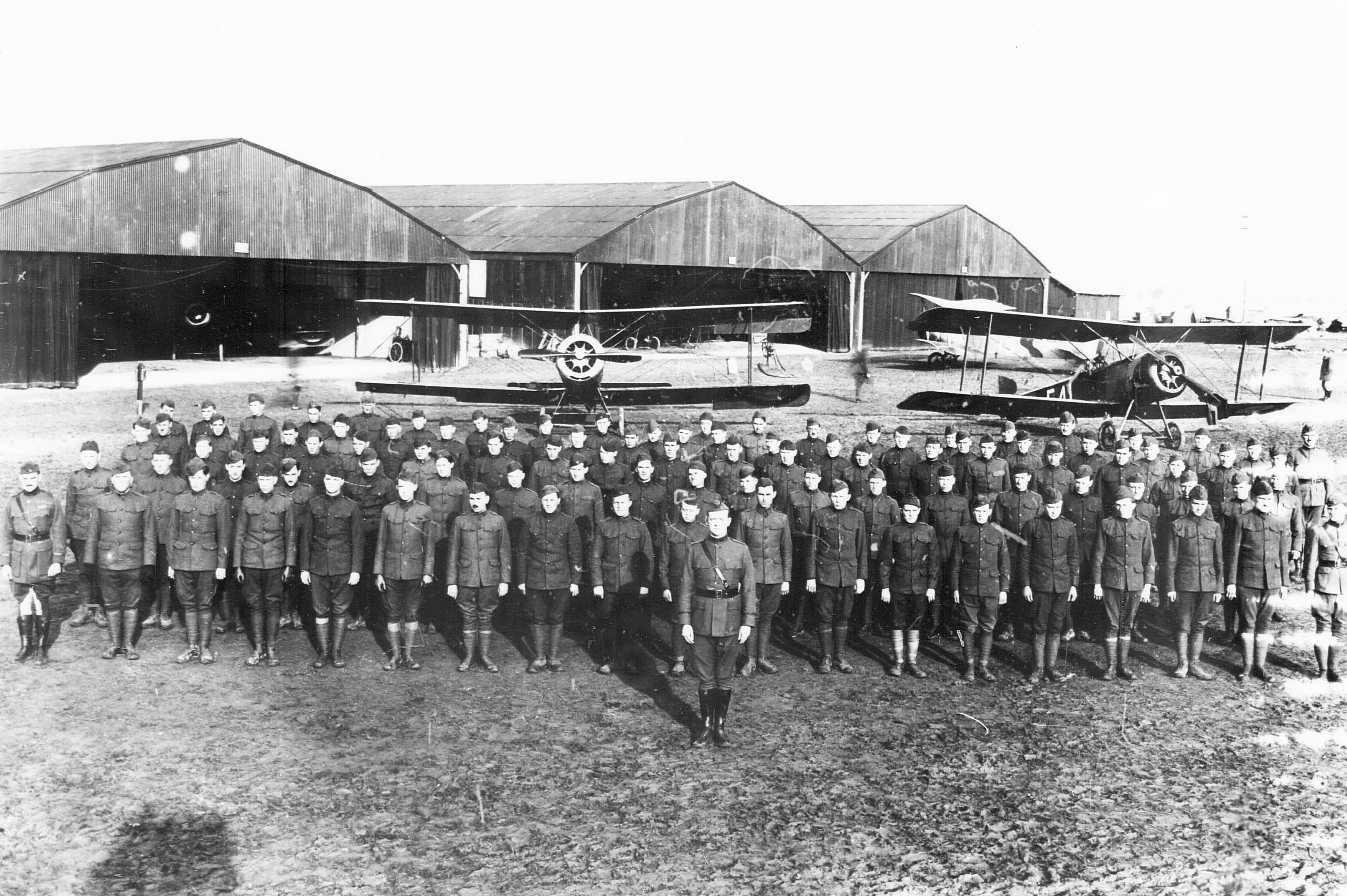 102d Aero Squadron, 2d Air Instructional Center (2d AIC), Tours Aerodrome, France in November 1917.